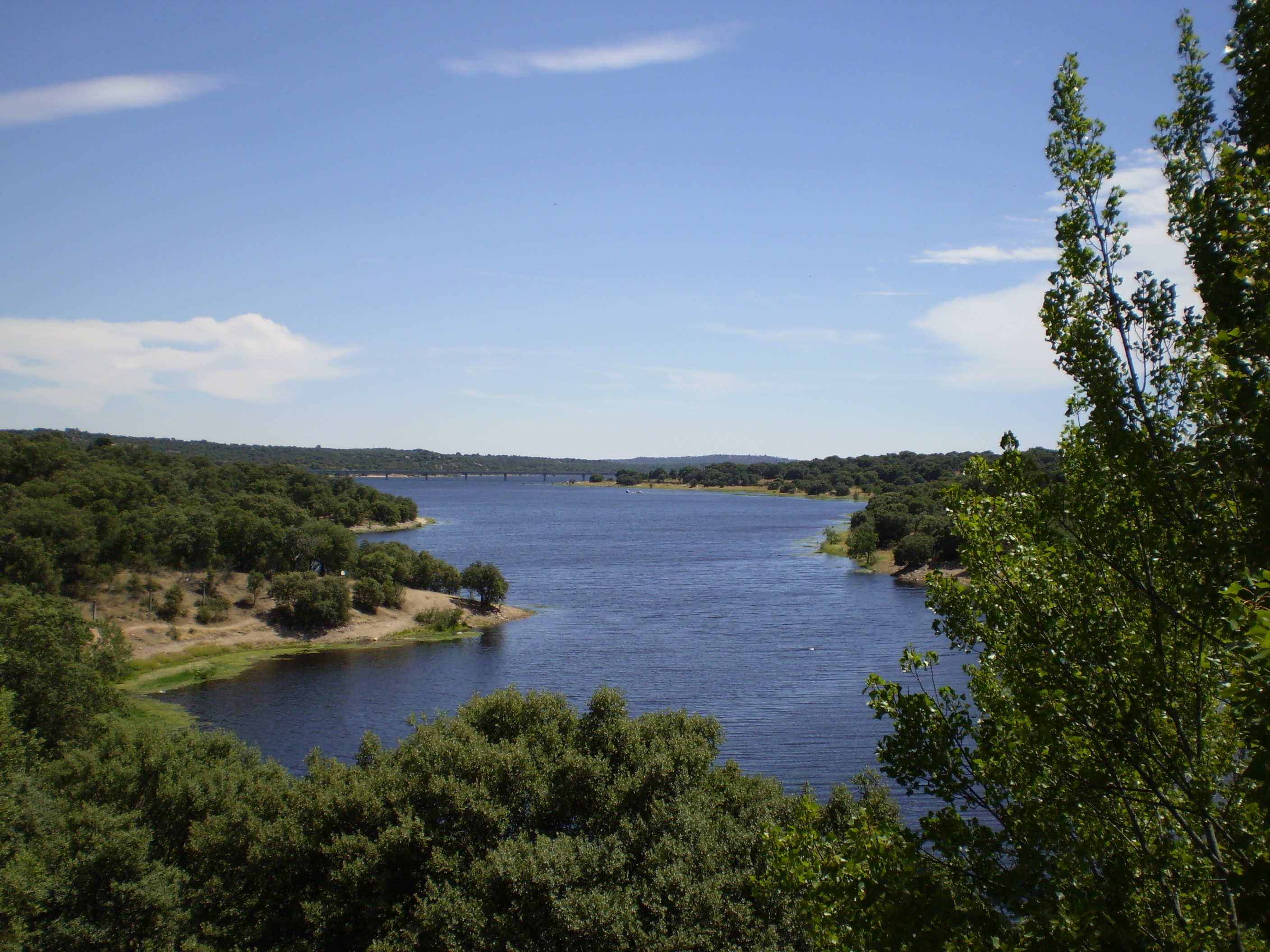 Valmayor Reservoir. Community of Madrid, Spain